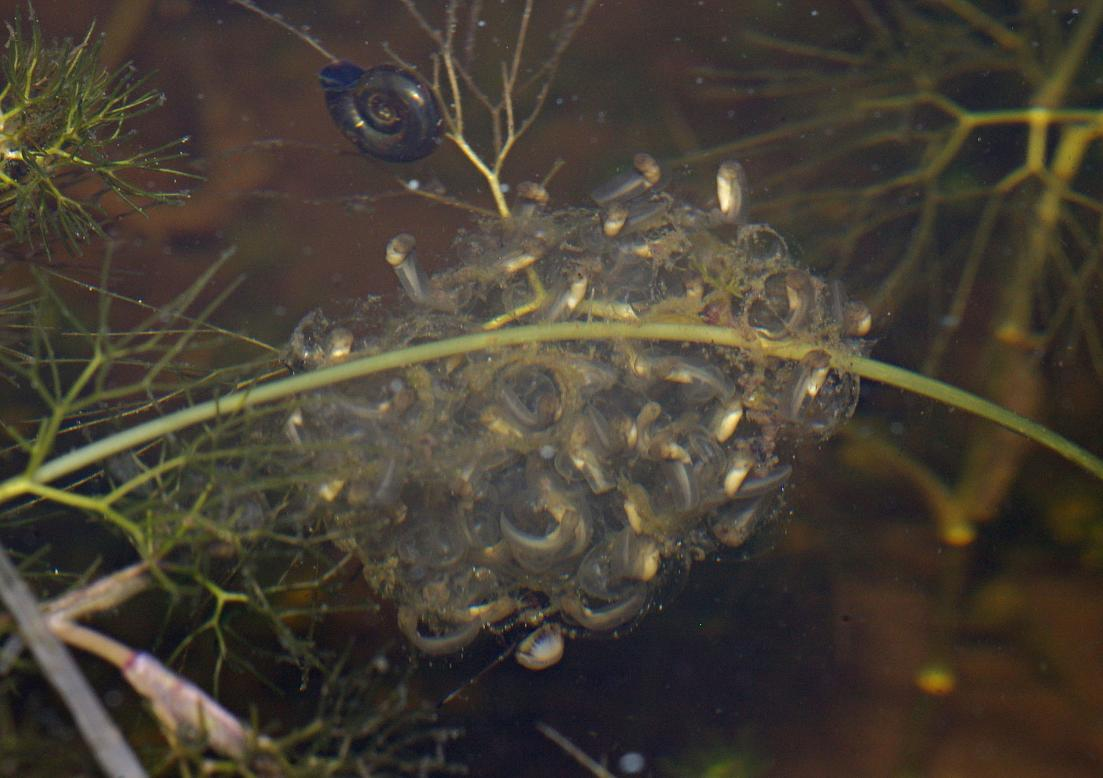 Spawn of the European Tree Frog (Hyla arborea) in stage of hatching. The tadpoles are just beginning to leave the eggs.